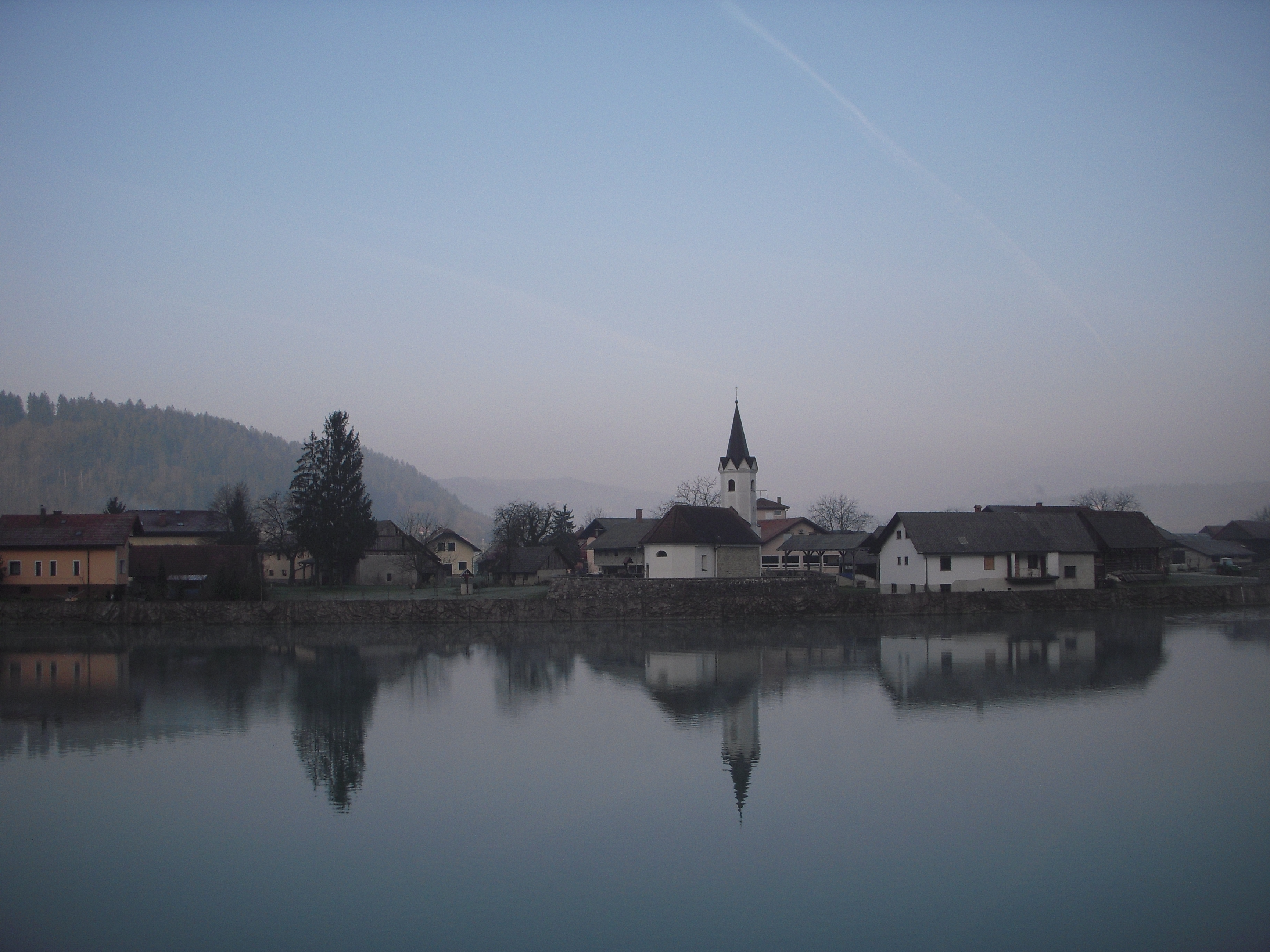 Taken from a moving train, so excuse the blur. Notice all the churches in the hills - they were used as lookout points way back when!